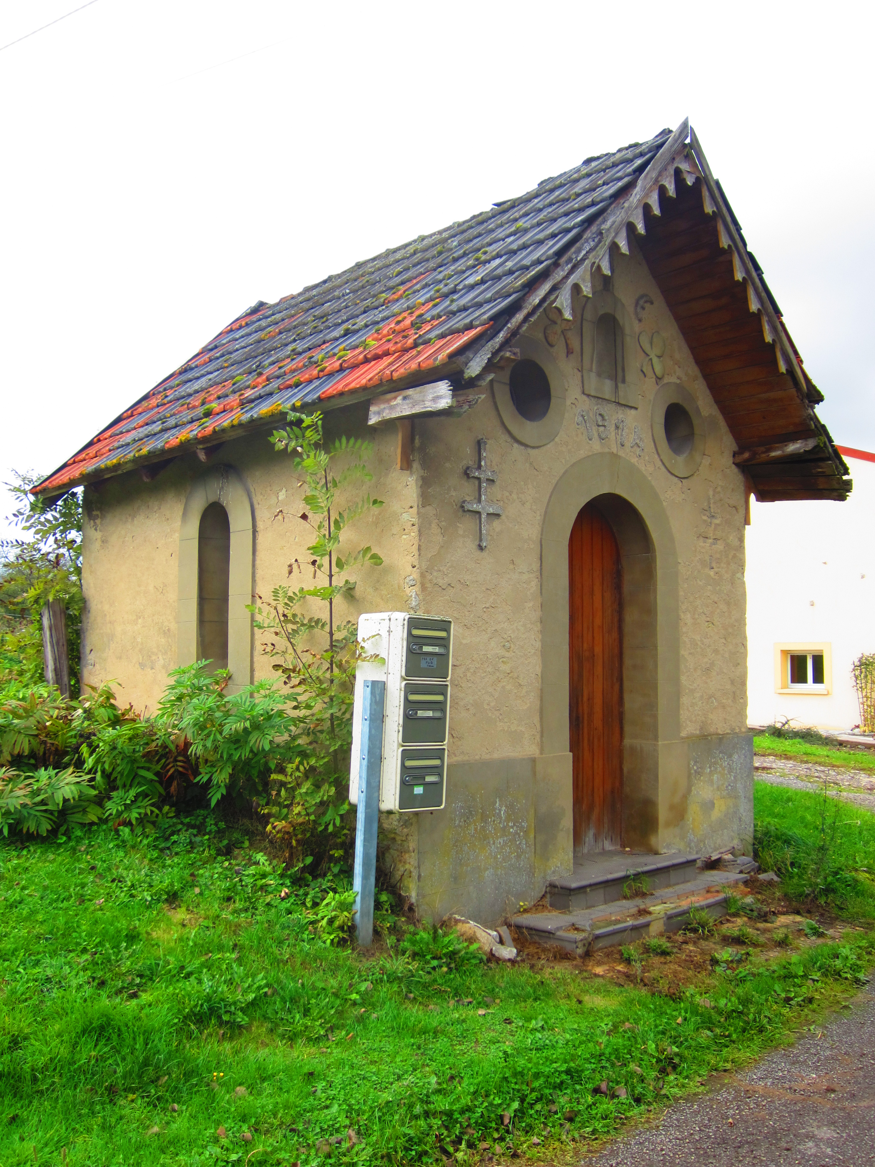 Guinglange chapel